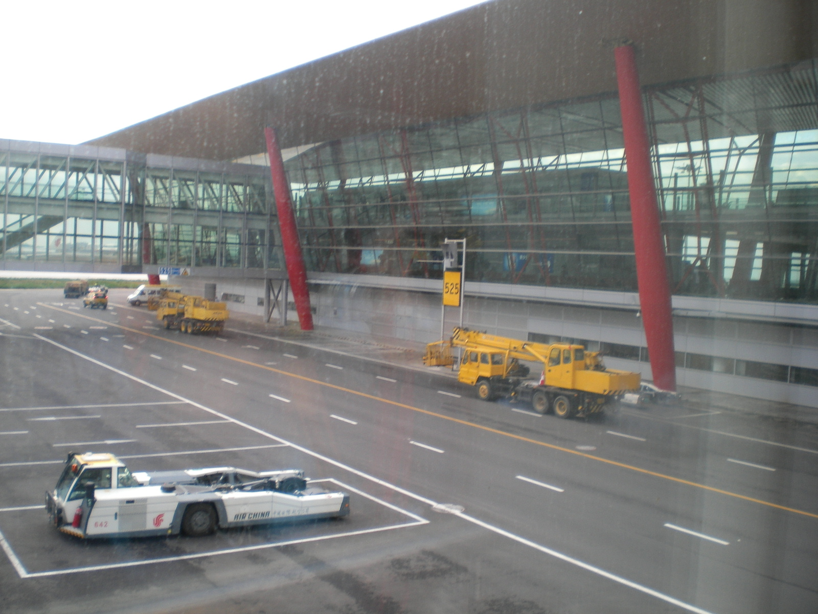 Terminal 3-E at Beijing Capital International Airport